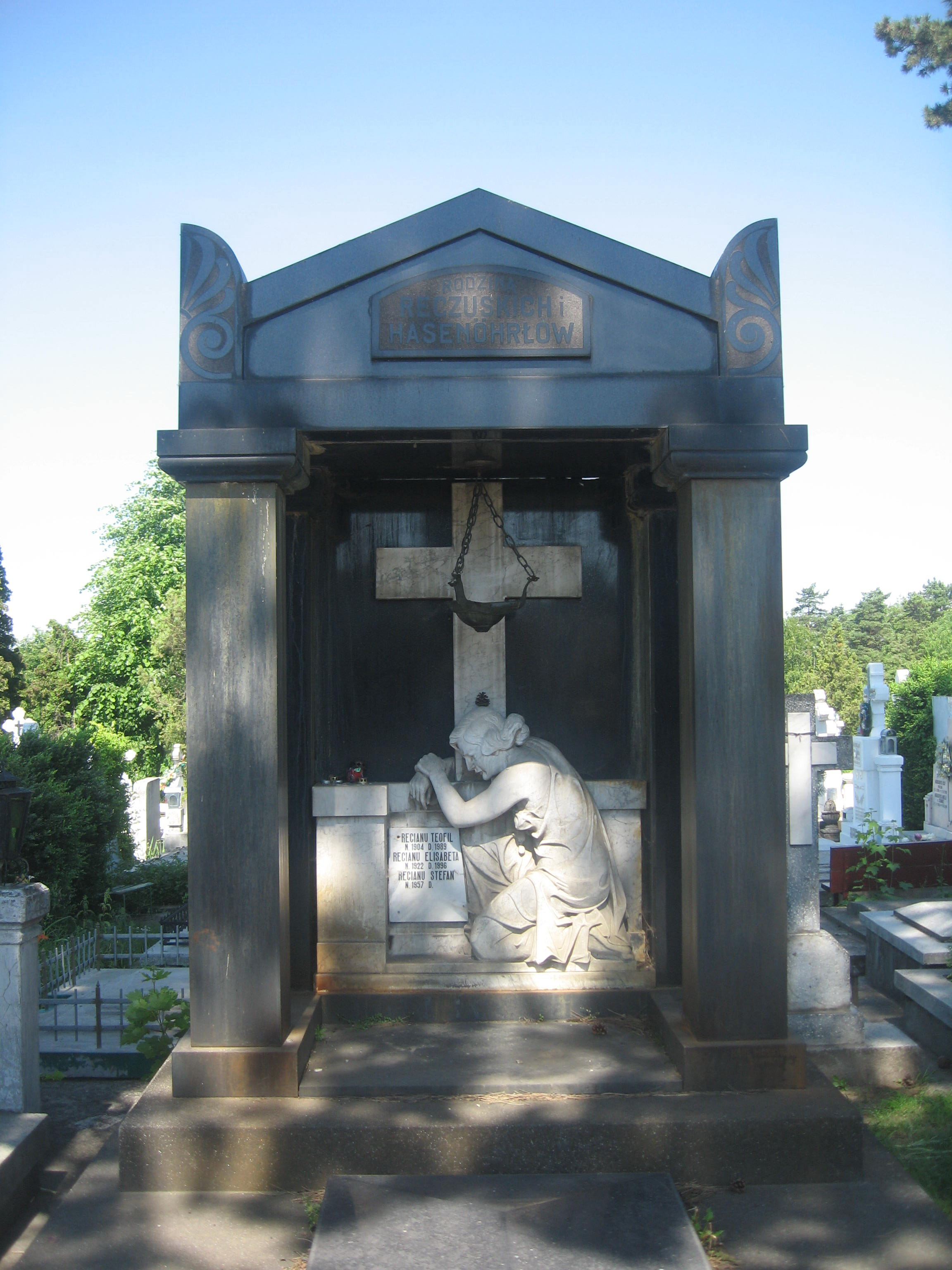 Pacea Cemetery in Suceava - Tomb of Rodzina Sessuski Hasenorzow family.